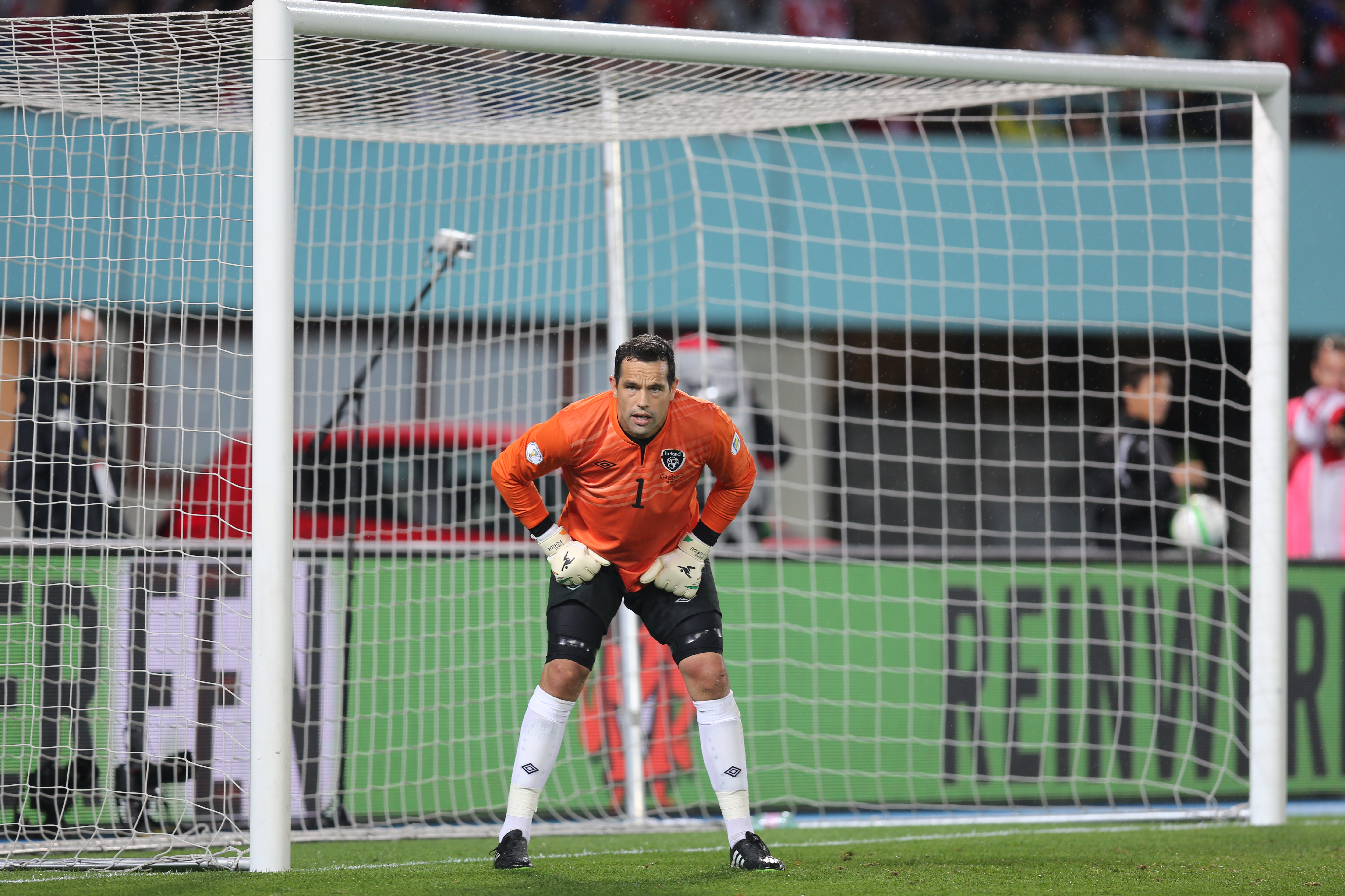 2014 FIFA World Cup qualification (UEFA), Group C: Republic of Ireland national football team at 10. September 2013 before the match against the Austria national football team (0:1) in the Ernst-Happel-Stadion in Vienna. Here: David Forde, irish goalkeeper The making of this work was supported by Wikimedia Austria. For other files made with the support of Wikimedia Austria, please see the category Supported by Wikimedia Österreich.